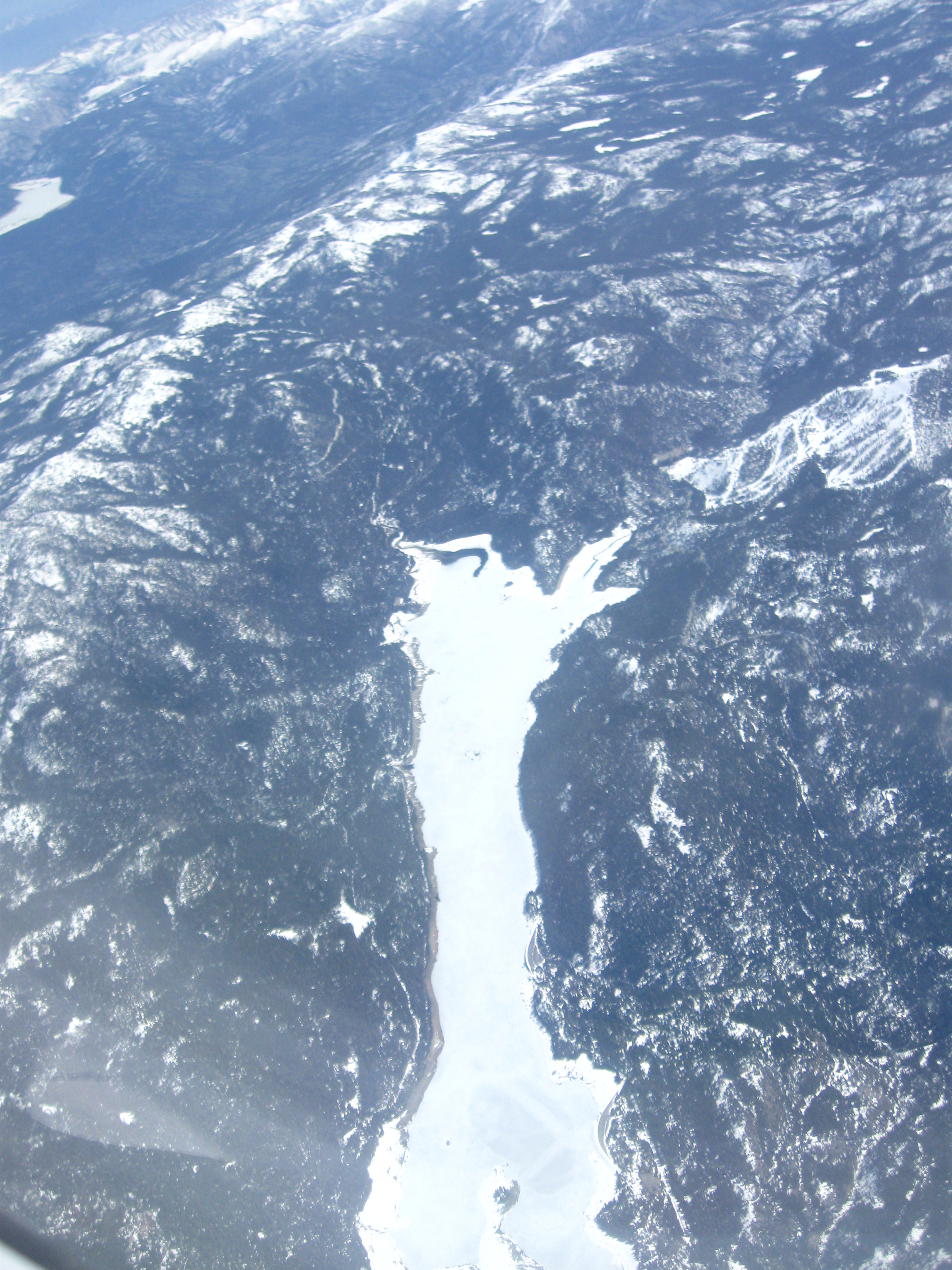 Aerial photograph of Huntington Lake a reservoir in the Sierra Nevada, Sierra National Forest, Fresno County, California